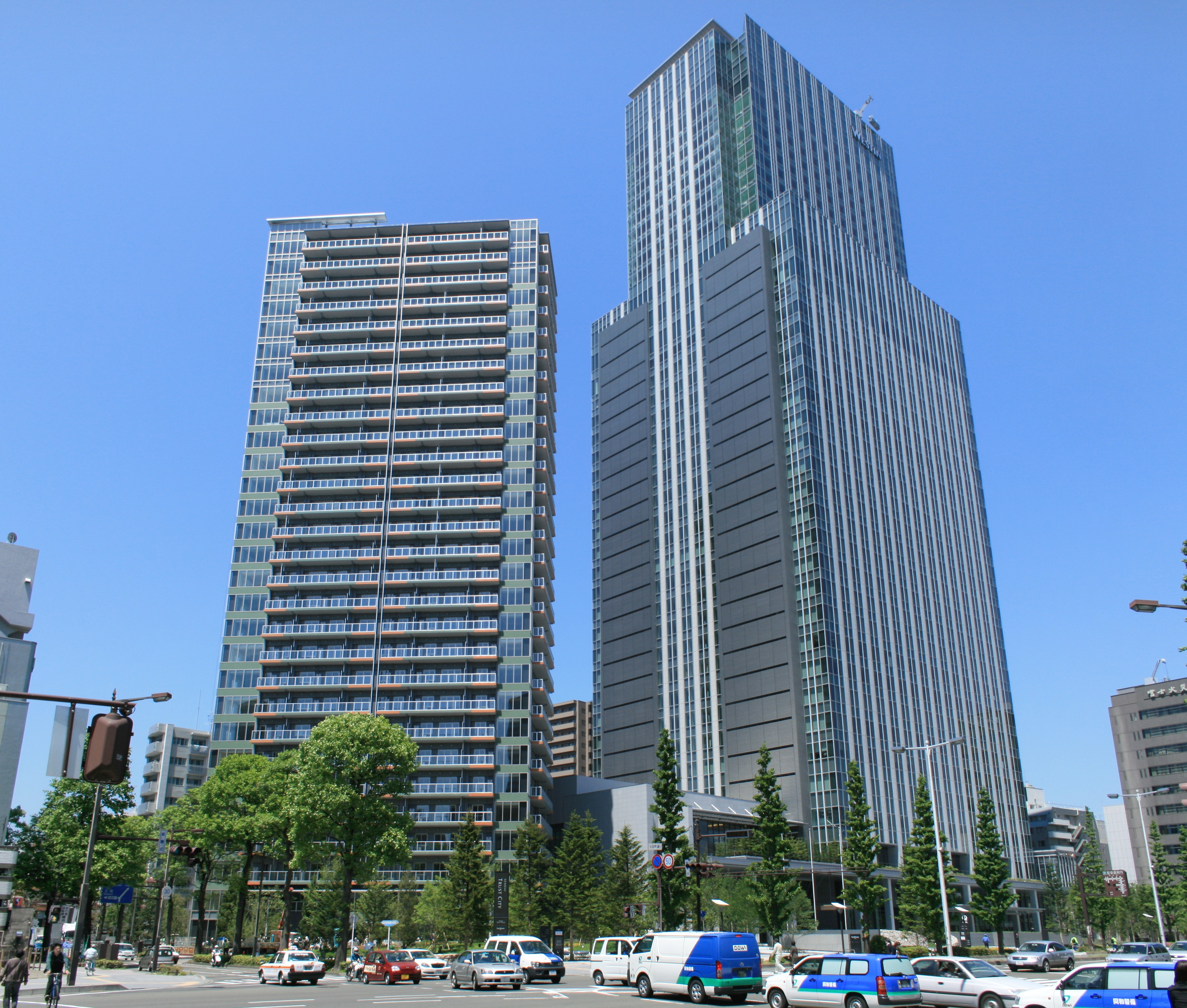 Sendai Trust City viewed from east-southeast. It is in Ichibancho (Ichibanchō), Aoba Ward (Aoba-ku), Sendai City (Sendai-shi), Miyagi Prefecture (Miyagi-ken), Japan. It is composed of two buildings, Sendai Trust Tower and The Residence Ichibanchō. Stitched 2 photographs together by Hugin, and retouched by GIMP2.